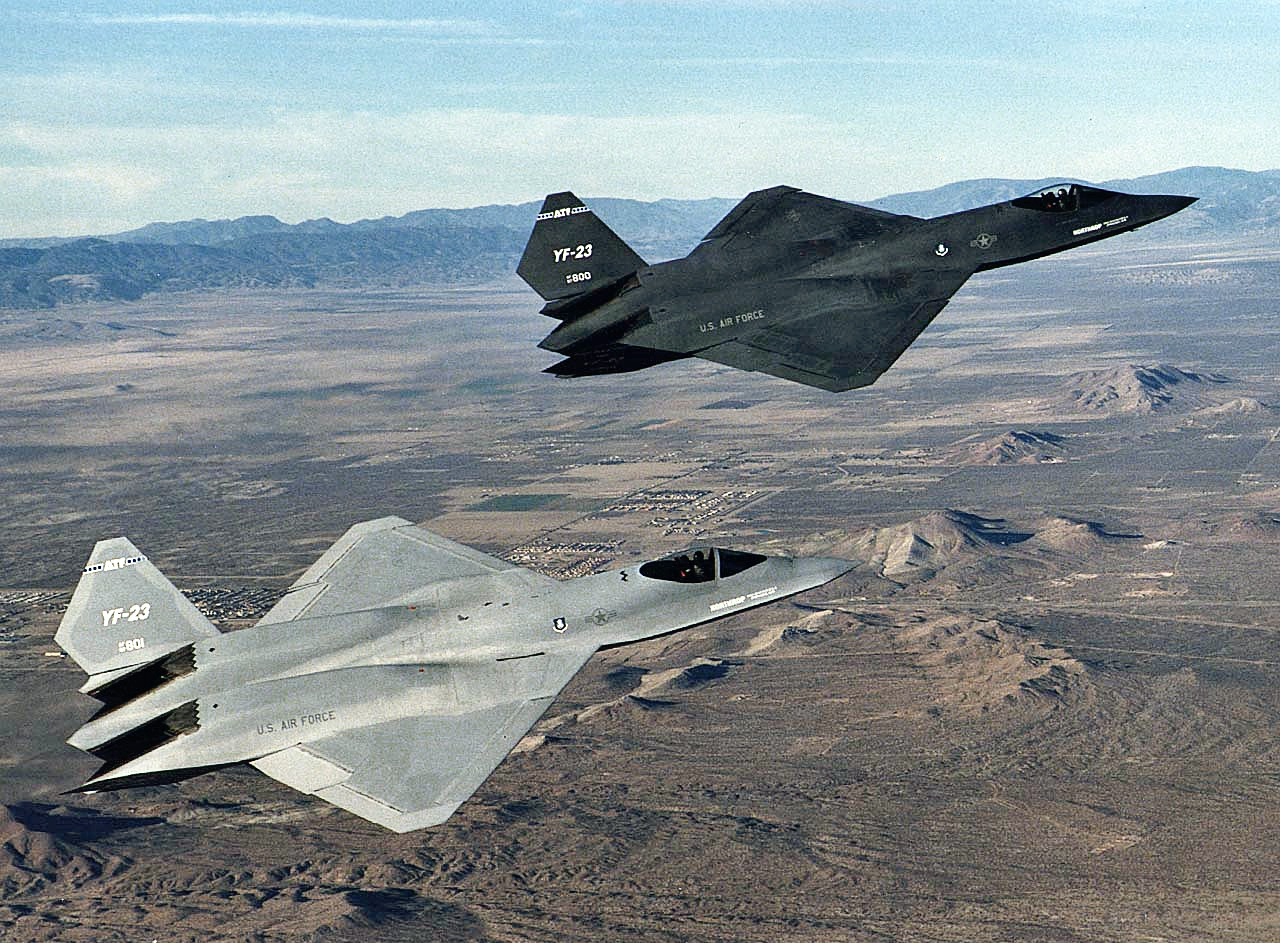 The two YF-23 prototype aircraft fly over the Mojave Desert prior to arrival at NASA's Dryden Flight Center, Edwards, California.